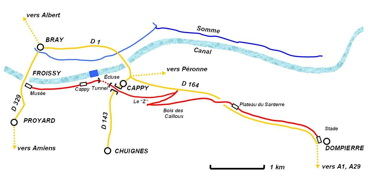 Map of the Froissy Dompierre Light Railway